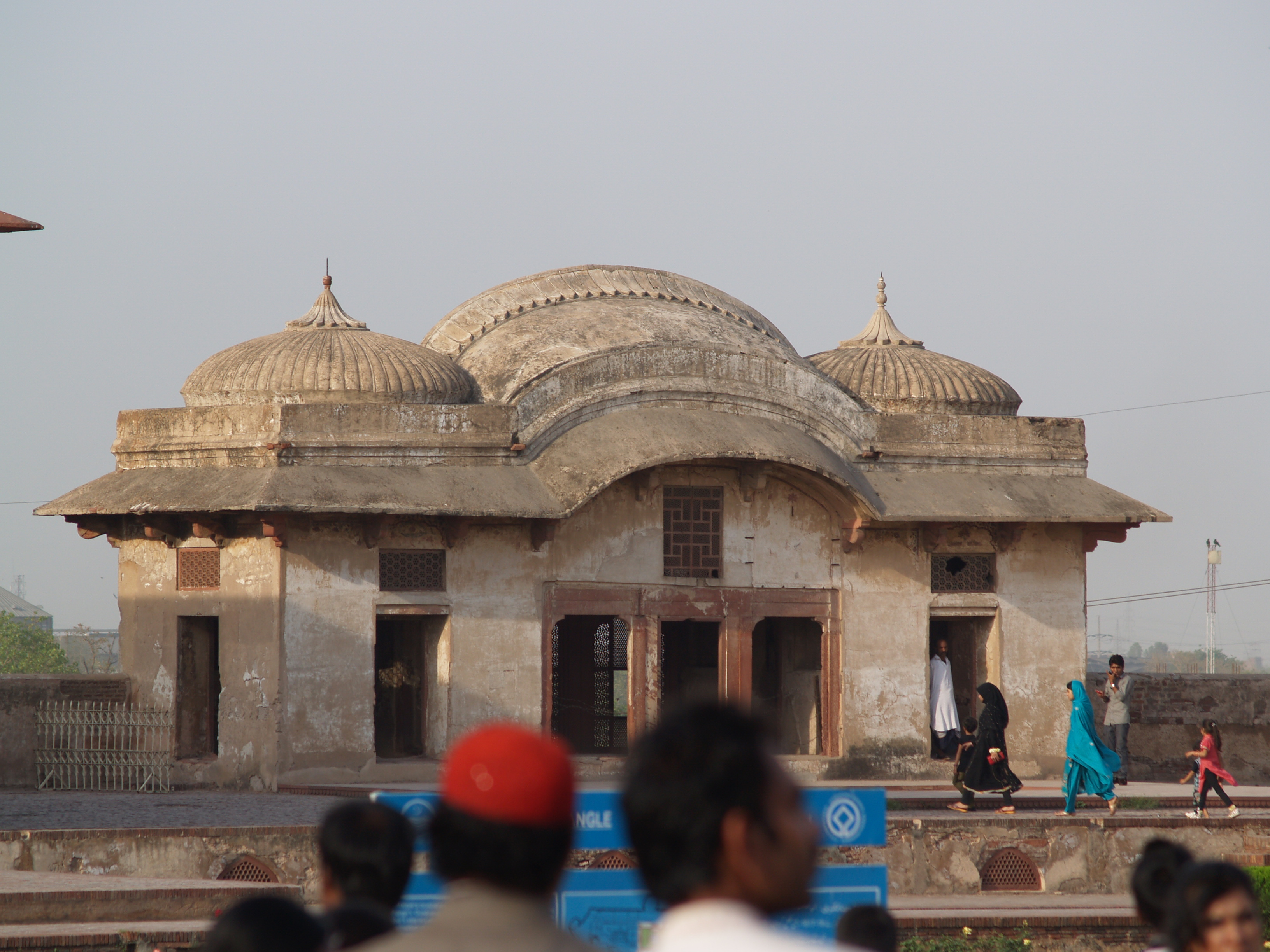 Lahore Fort complex (including Moti Masjid, Naulakha Pavilion, Sheesh Mahal and others) This is a photo of a monument in Pakistan identified as the PB-67